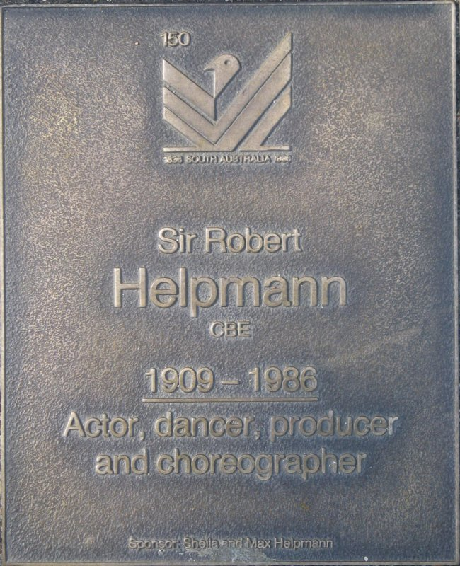 Jubilee 150 Walkway Plaque commemorating Robert Helpmann